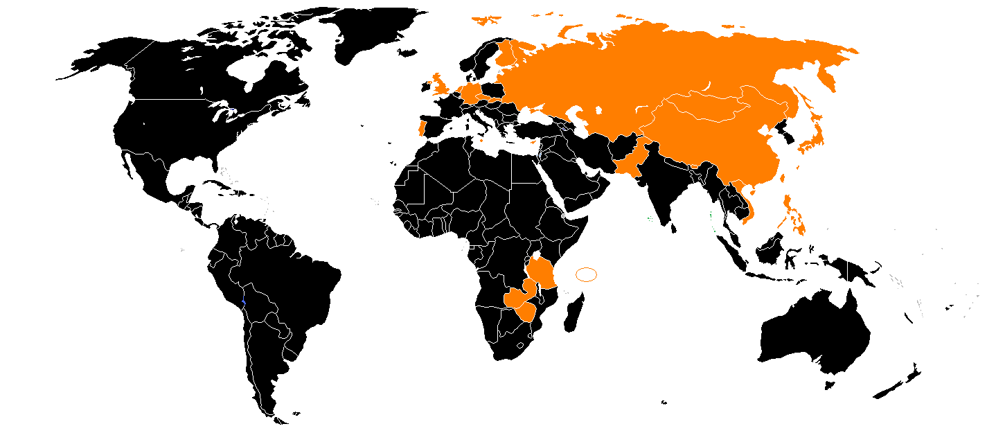 President R Venkataraman led 11 state visits between 1988 and 1992, visiting 20 nations. Information from the President of India's Secretariat.